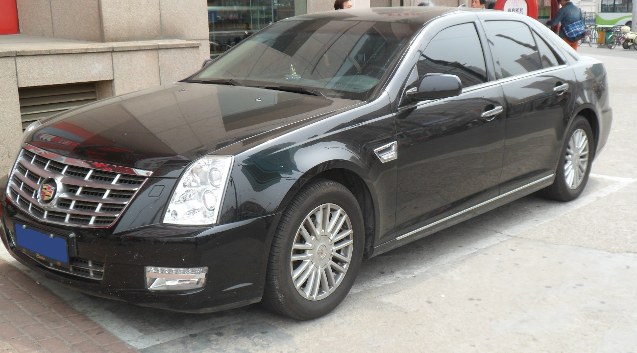 Cadillac SLS facelift photographed in Shanghai, China.